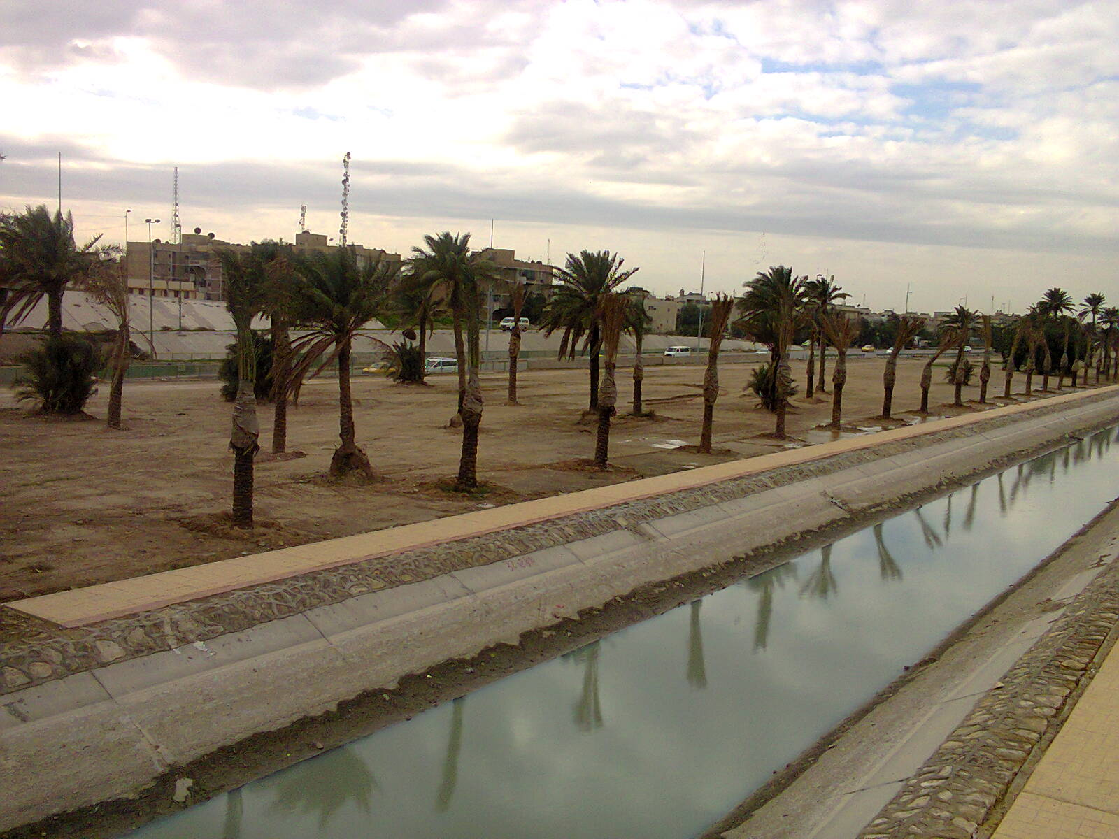 Canal located in east Baghdad derived from the Tigris River and pour in the Diyala River